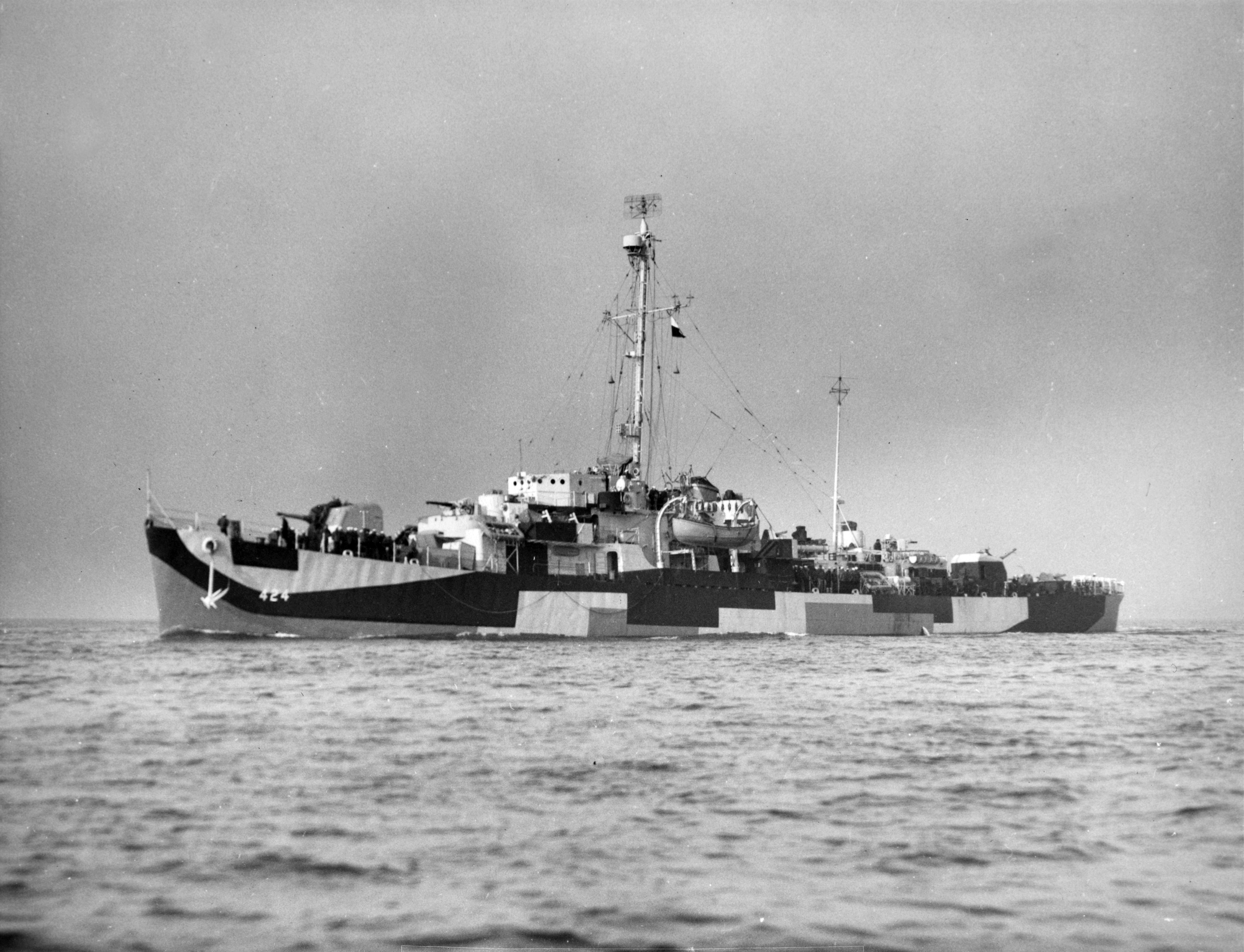 The U.S. Navy destroyer escort USS Haas (DE-424) underway off Boston, Massachusetts (USA), on 5 October 1944. She is painted in Camouflage Measure 32, Design 3D.